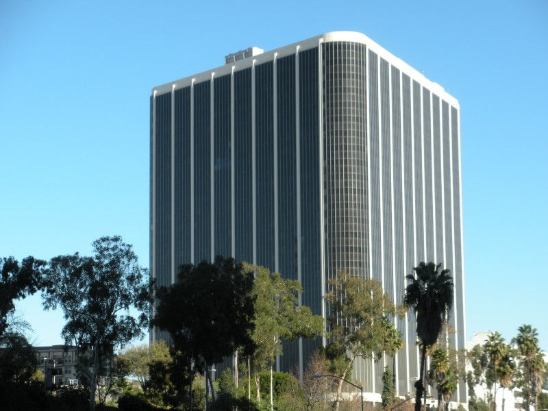 Headquarters of Los Angeles Unified School District, Downtown Los Angeles, California